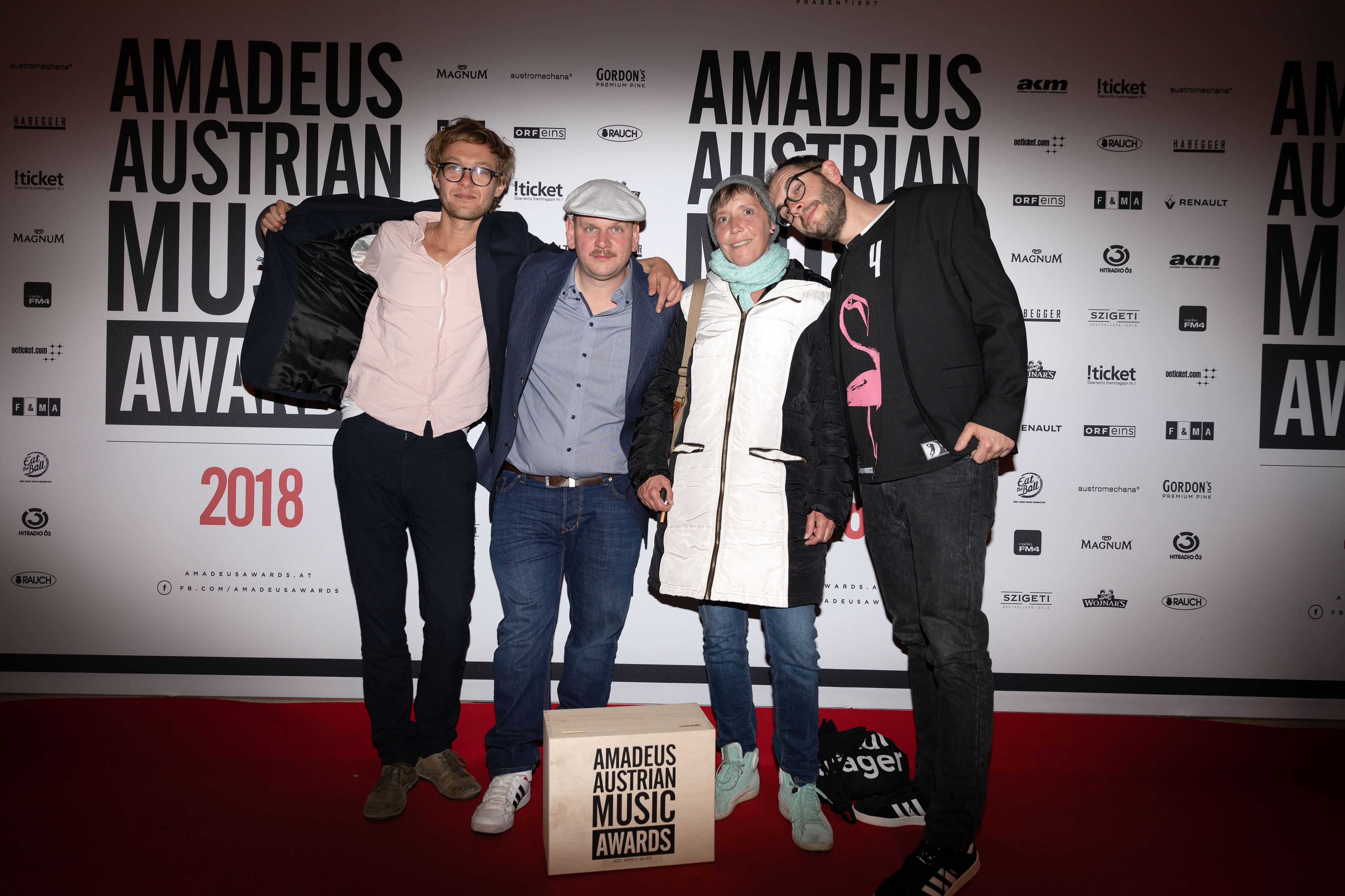 5/8erl in Ehr’n at the Amadeus Austrian Music Award 2018 at Volkstheater in Vienna.